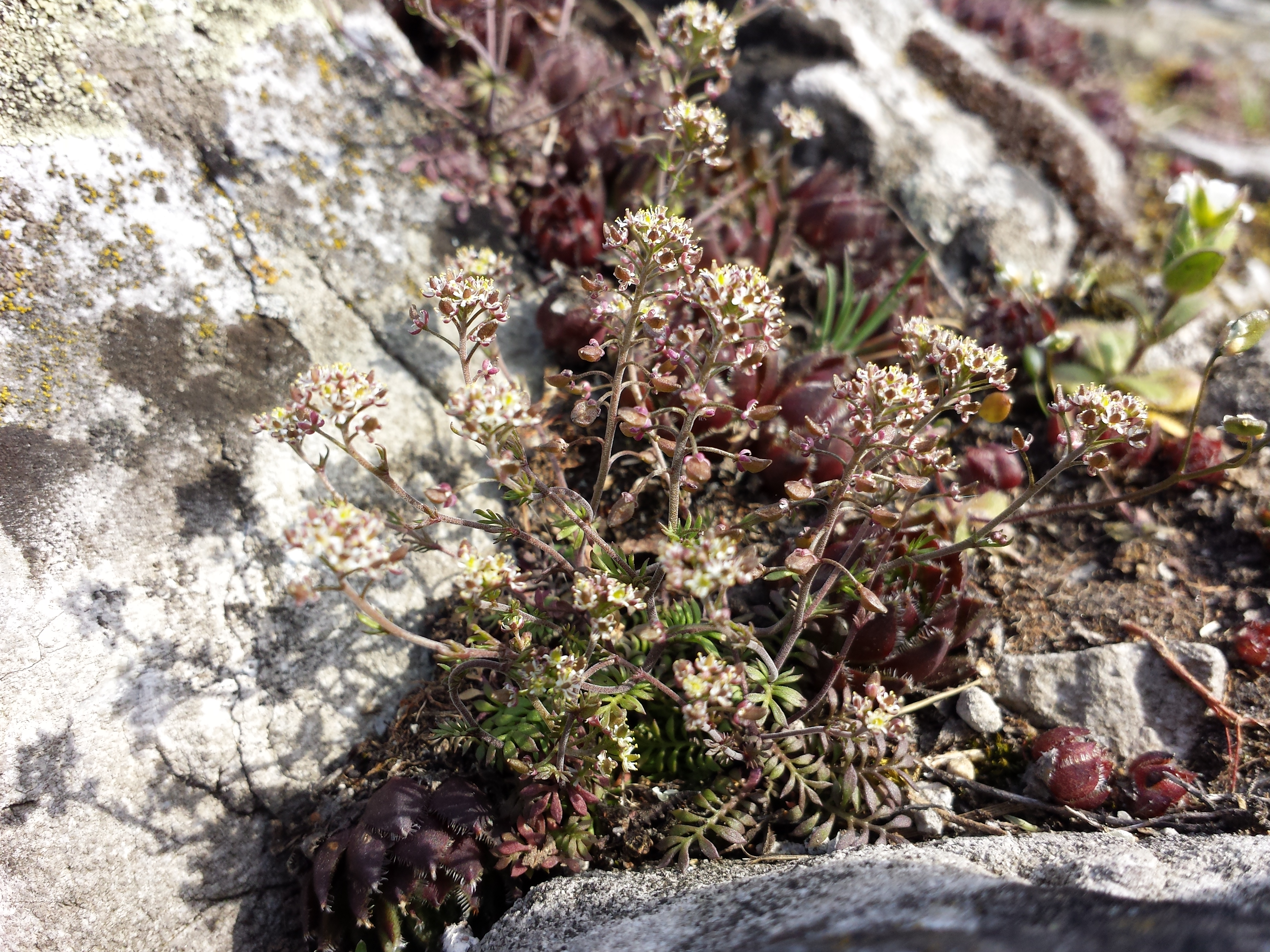 Habitus Taxonym: Hornungia petraea ss Fischer et al. EfÖLS 2008 ISBN 978-3-85474-187-9 Location: Hundsheimer Berge, district Bruck an der Leitha, Lower Austria - ca. 300 m a.s.l. Habitat: rock steppe